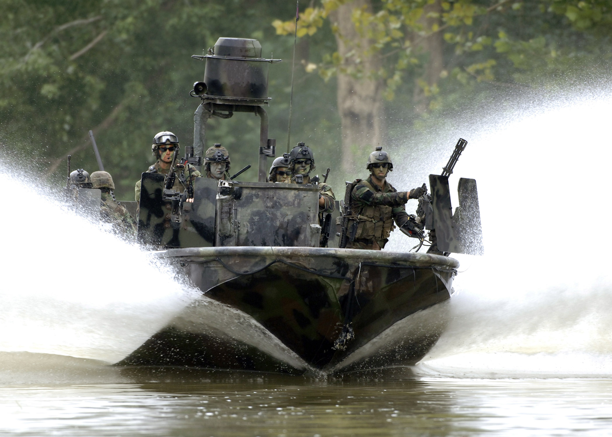 FT. KNOX, Ky. (Aug. 25, 2007) - Special Warfare Combatant-craft Crewmen (SWCC) transit the Salt River in northern Kentucky during pre-deployment, live-fire training. SWCCs attached to Special Boat Team (SBT) 22 based in Stennis, Miss., employ the Special Operations Craft Riverine (SOC-R), which is specifically designed for the clandestine insertion and extraction of U.S. Navy SEALs and other special operations forces along shallow waterways and open water environments. U.S. Navy photo by Mass Communication Specialist 2nd Class Jayme Pastoric (RELEASED)